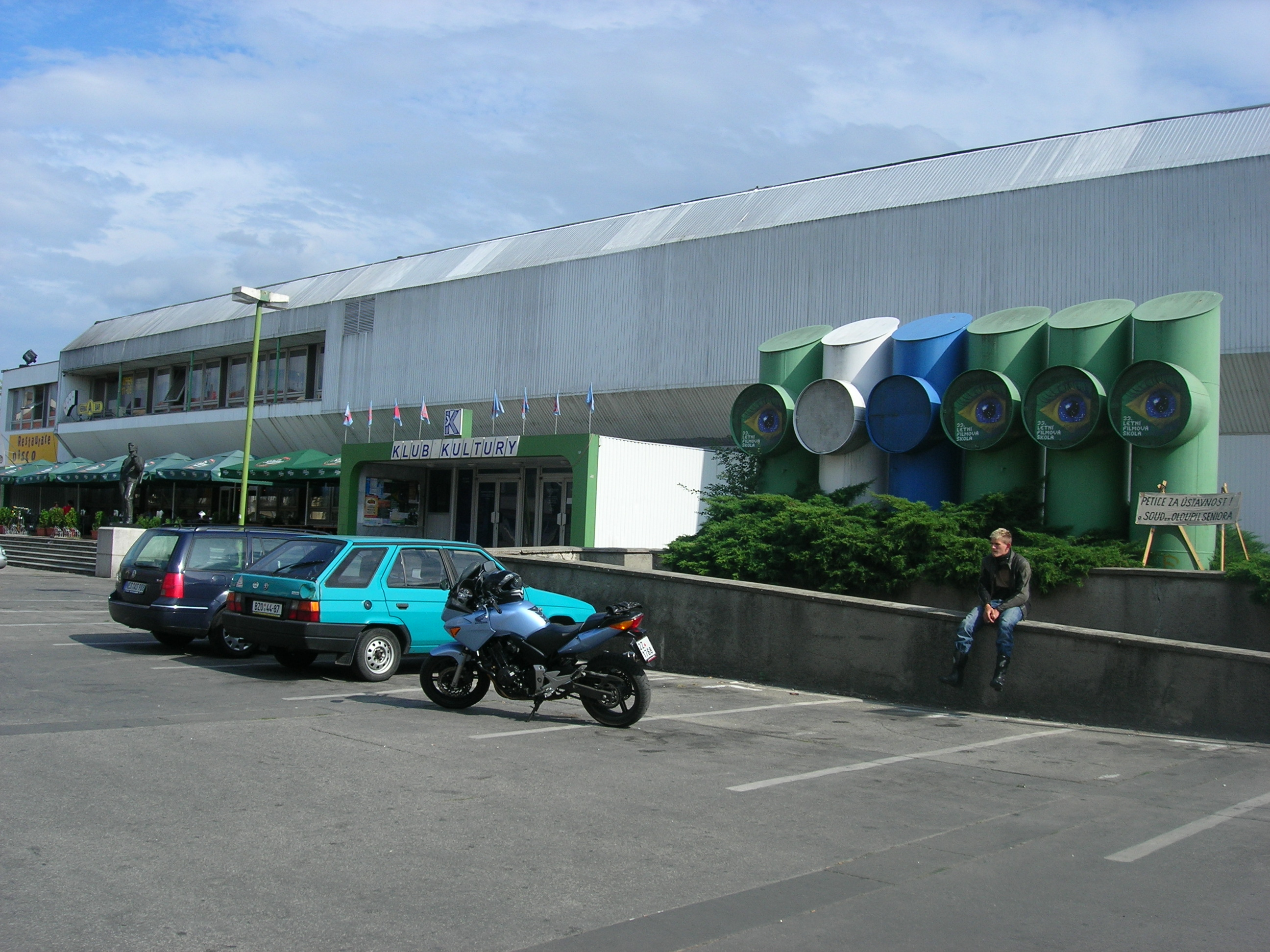 Summer school of film (Letni filmova skola) in Uherske Hradiste, Czech Republic, House of culture